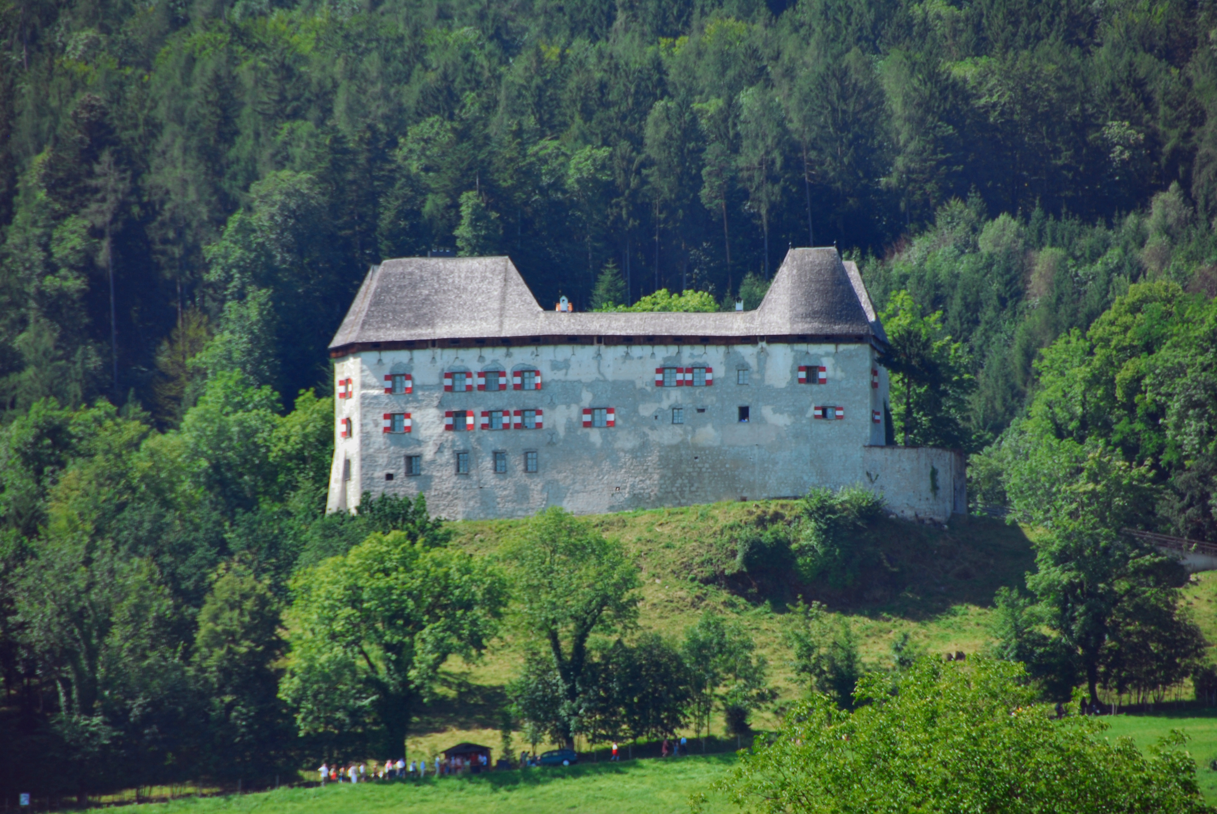 Picture of Schloss Staufeneck in Southern Germany.